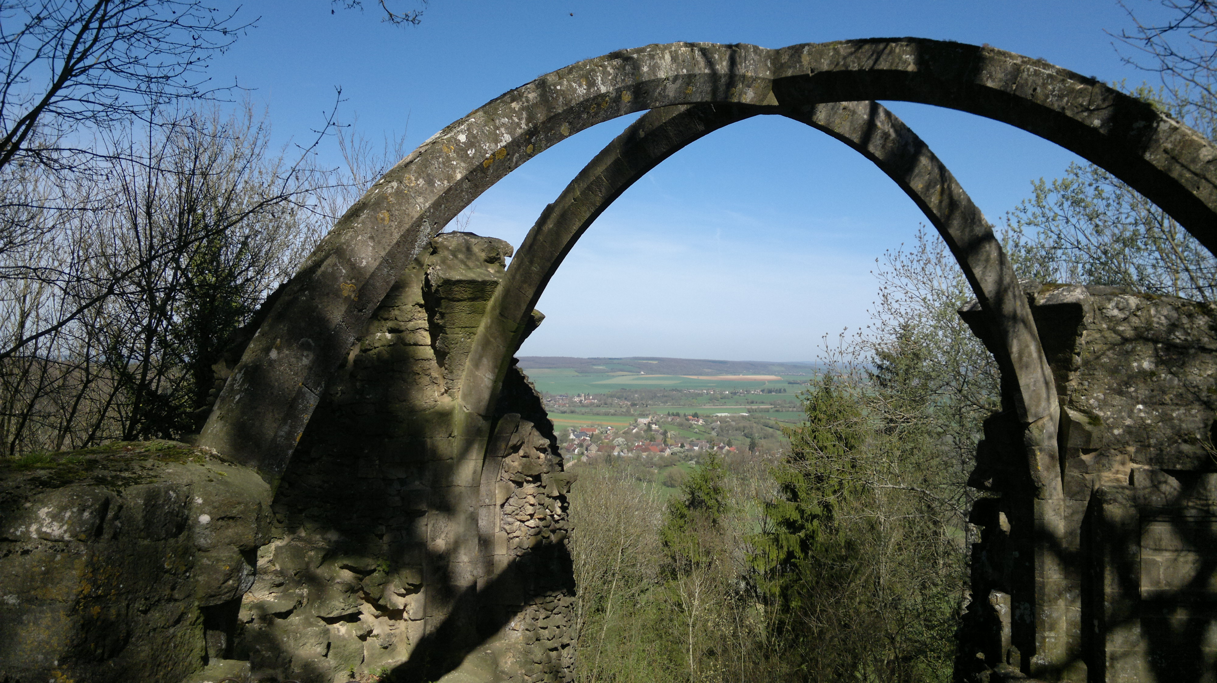 Butte de Montenoison, Canton Prémery, Nièvre, France